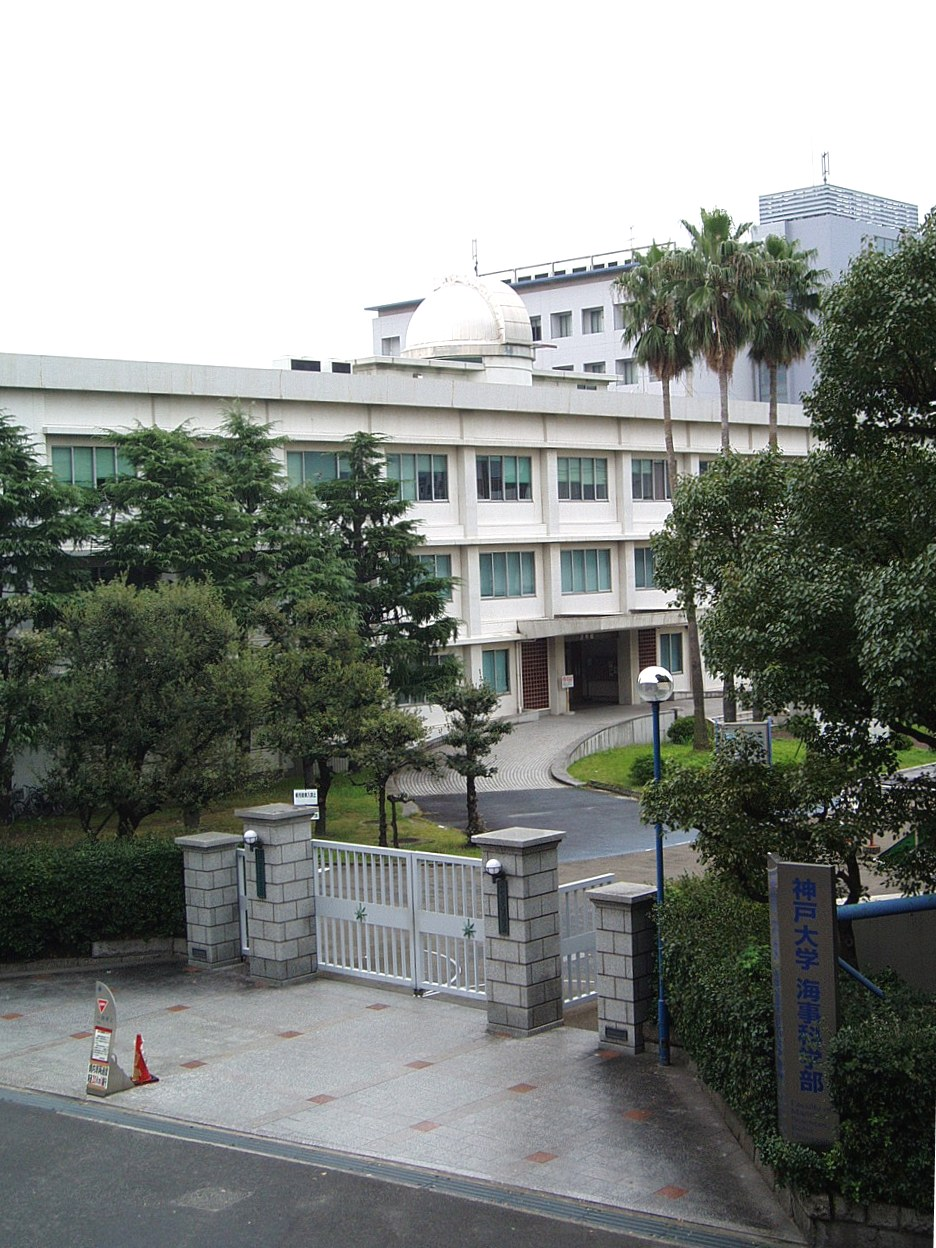 The main gate of Fukae Campus (Faculty of Maritime Sciences), Kobe University. Located in Higashinada-ku, Kobe, Hyogo, Japan.